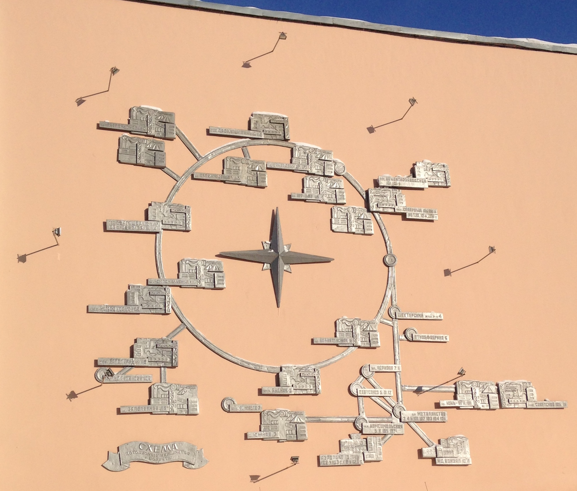 Vorkuta mines scheme